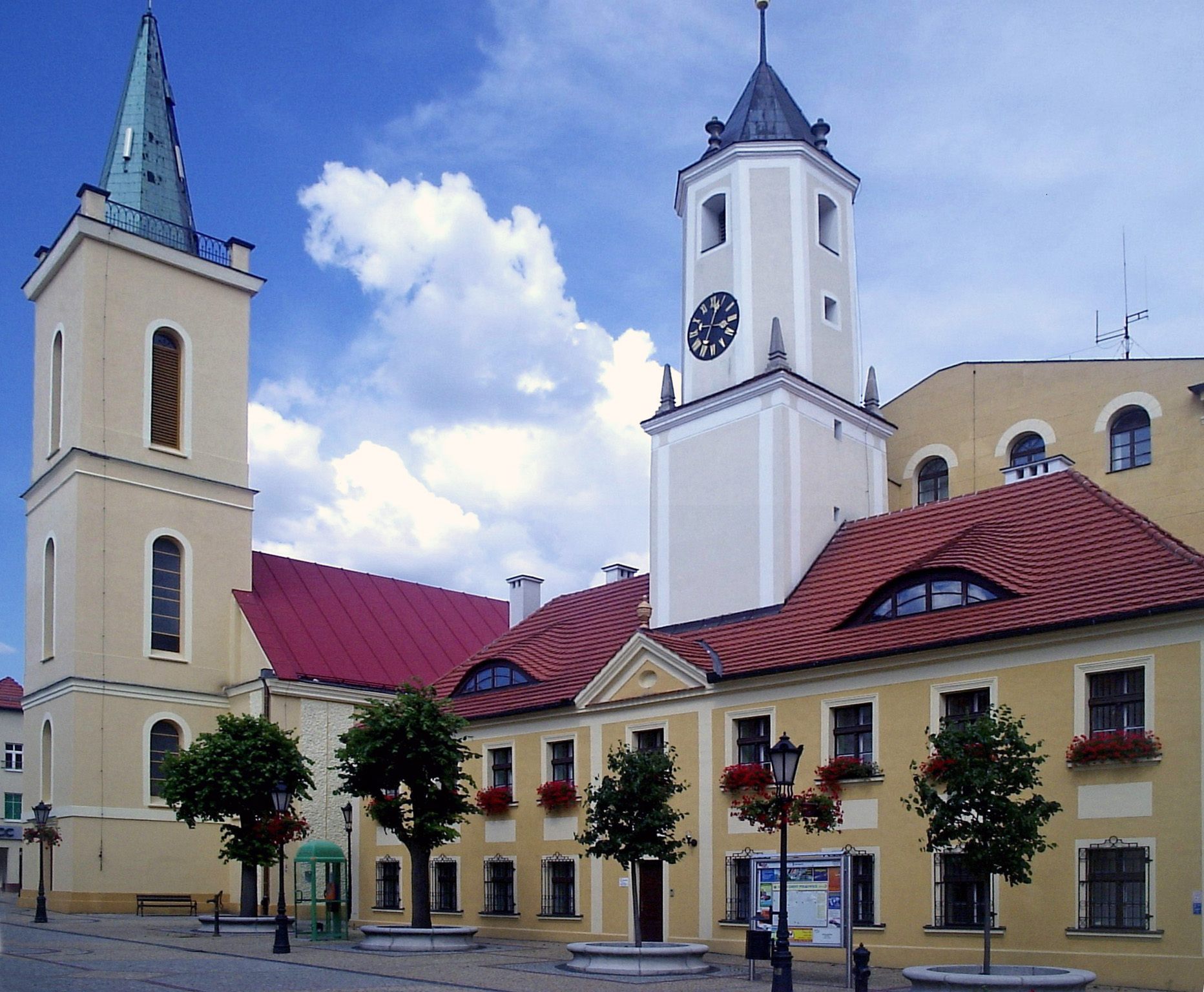 Town Hall in Polkowice, Poland